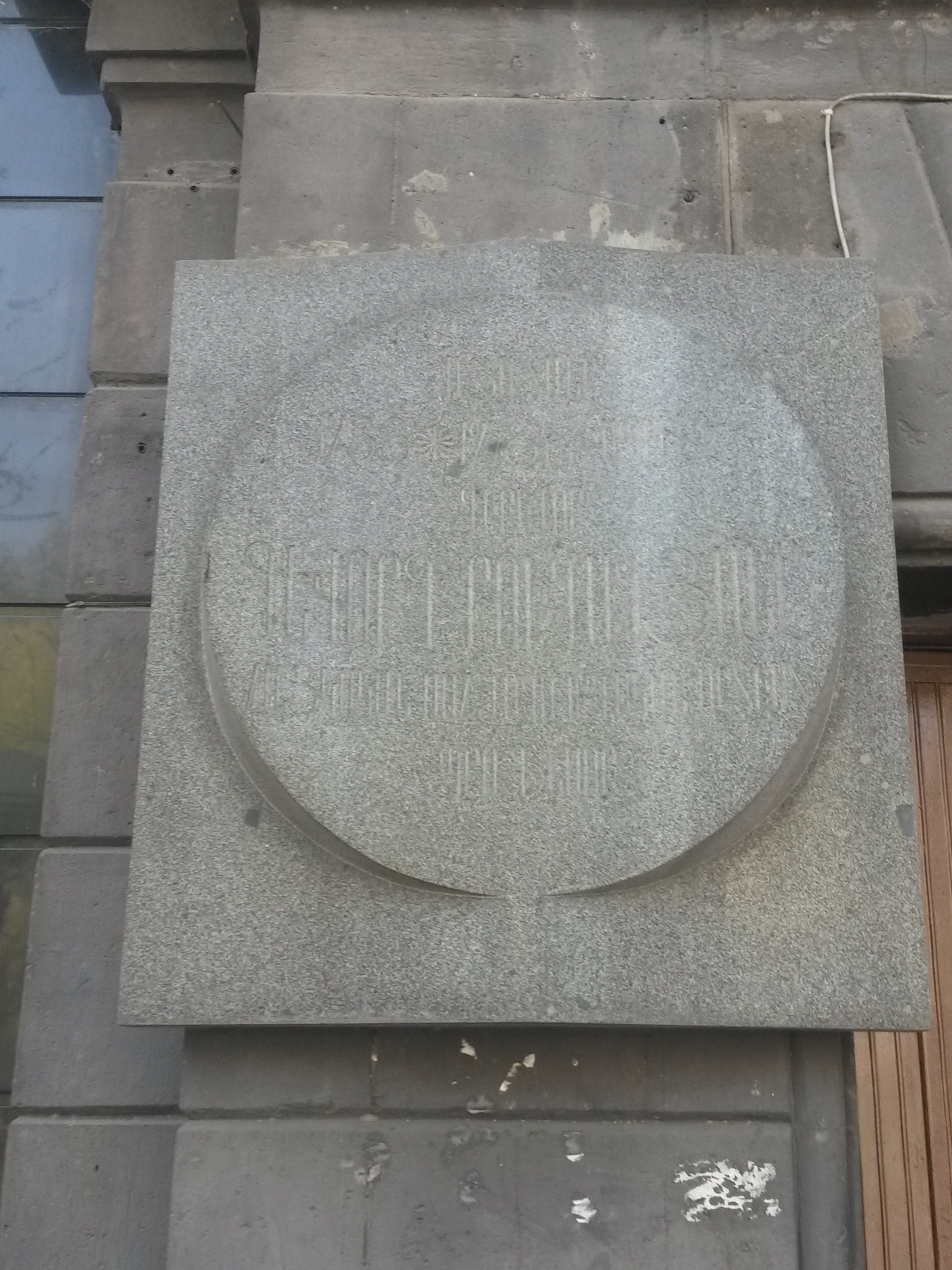 Gevorg Budaghyan's plaque